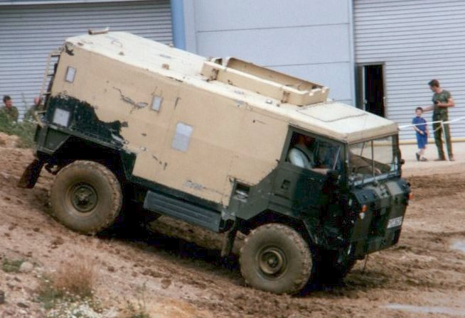 Description: A Land Rover 101 Forward Control. Source: Family photo of the uploader. Camera: Pentax SLR